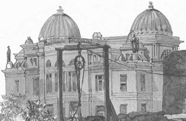 view of Capitol building (now replaced elsewhere in the city) from New-Mexican adobe yard